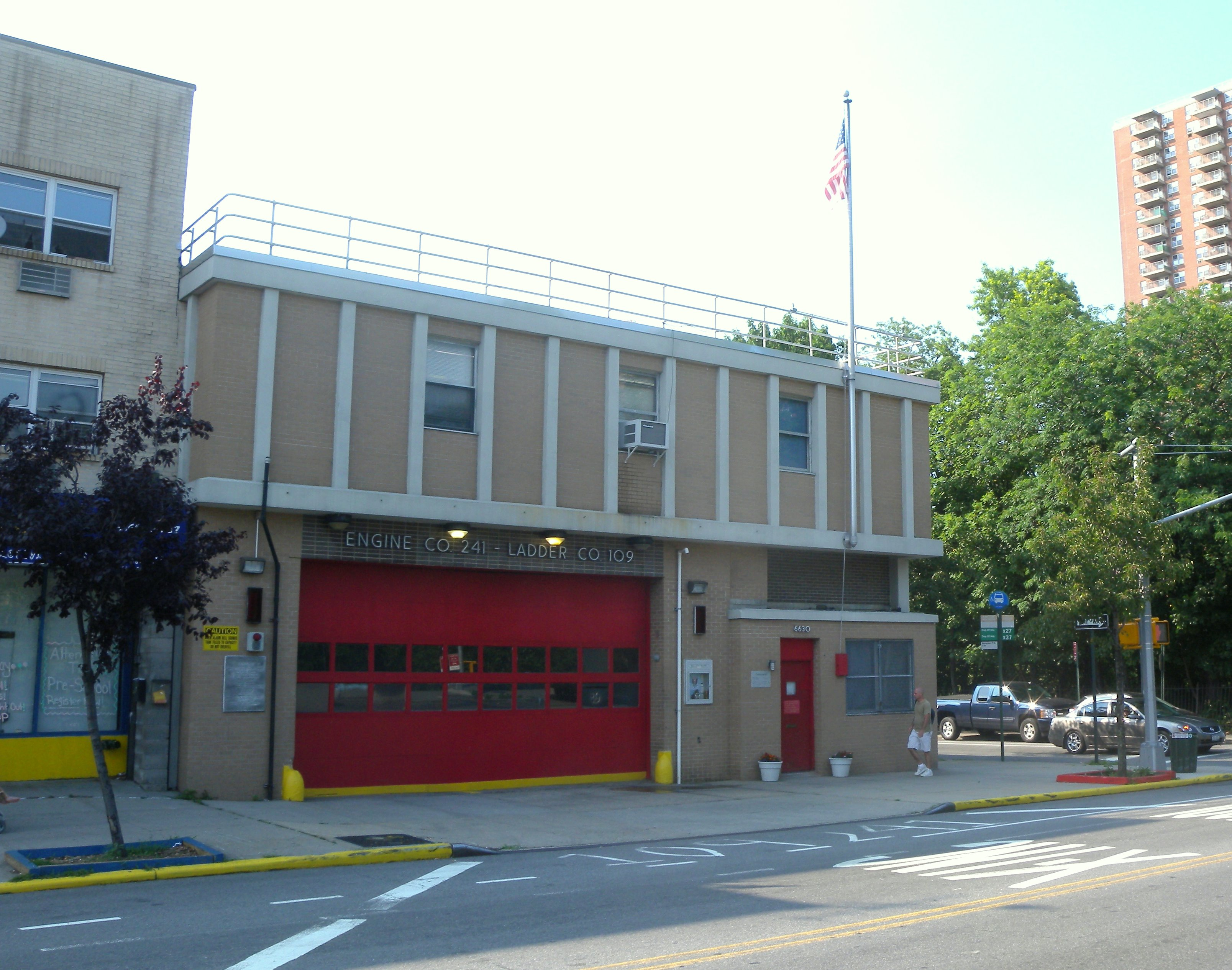 Looking north across 3d Avenue at fire station on a sunny afternoon.